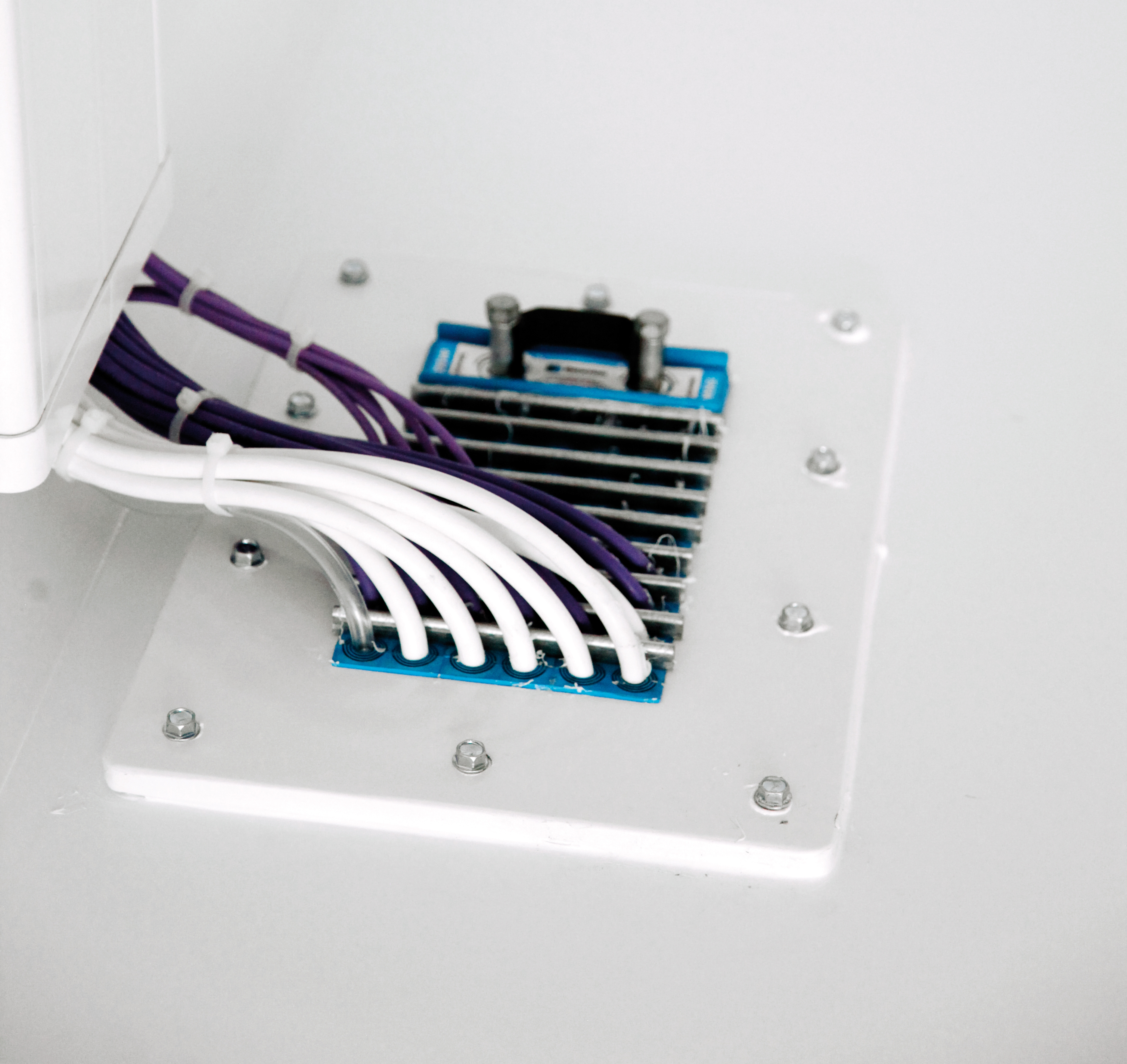 Seals used around power and lighting cables to maintain airtight integrity of a cleanroom